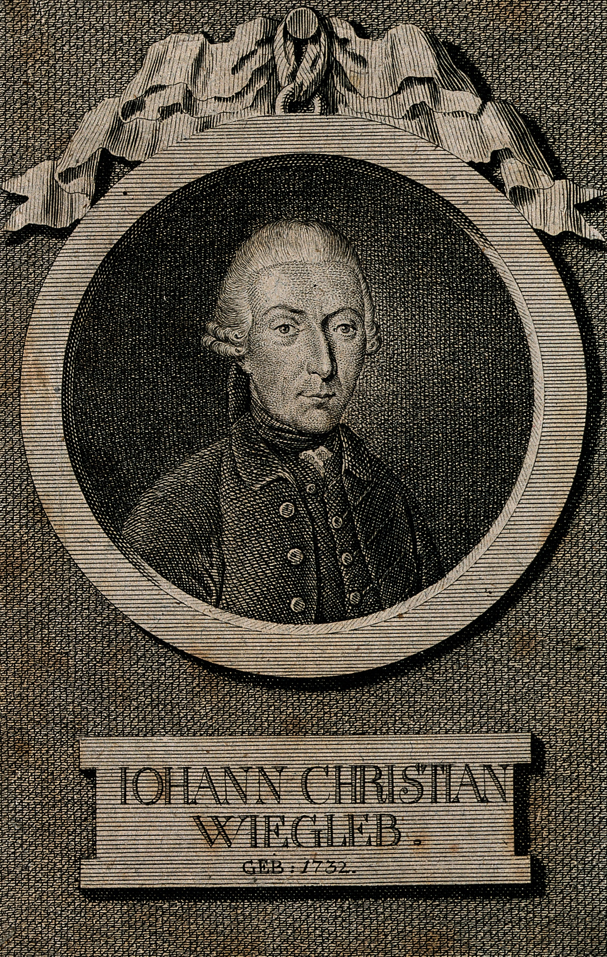 Johann Christian Wiegleb (1732–1800). Line engraving. Iconographic Collections Keywords: portrait prints; engravings; Johann Christian Weigleb